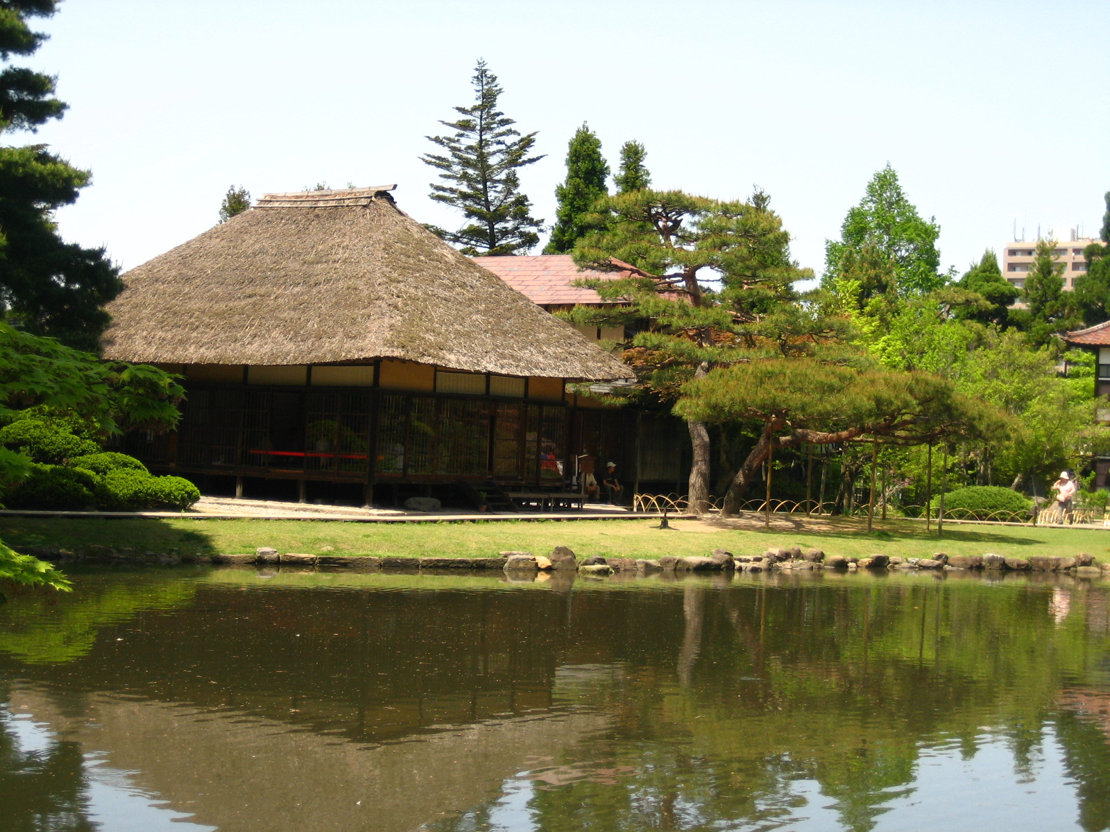 A picture of the Ochayagoten (tea ceremony palace) at Aizu Matsudaira's Royal Garden. Picture was taken with a Canon Power Shot SD450 Digital Elph camera.